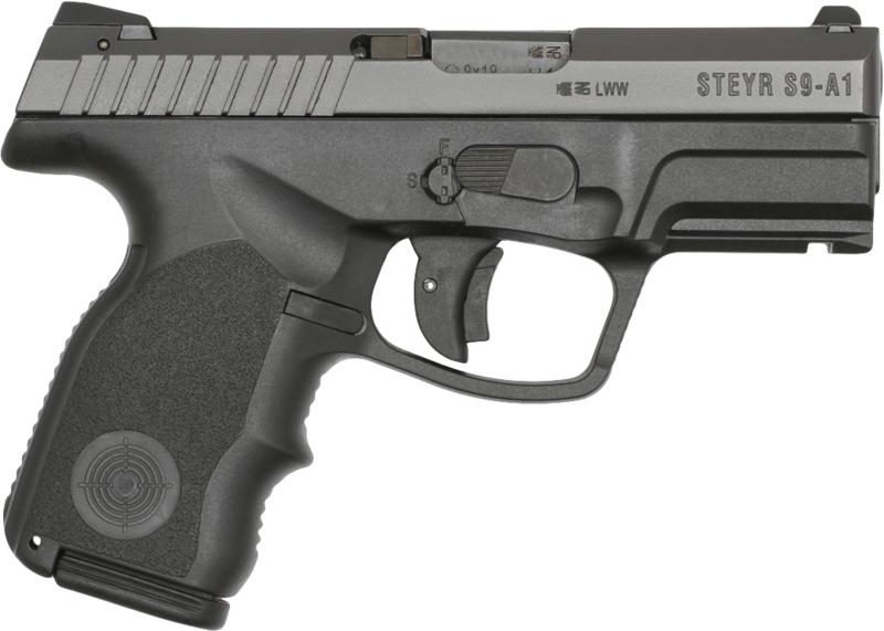 Steyr S9-A1 semi-automatic pistol